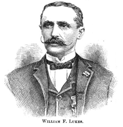 Landsman William F. Lukes, U.S. Navy. Reproduction of a drawing, published in the book, The Story of American Heroism, page 752, by J. William Jones, published by the Werner Company in 1897. William F. Lukes received the Medal of Honor for continuing to fight after receiving a head injury during the capture of Korean forts on 11 June 1871.